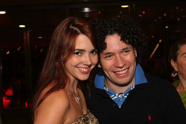 Gustavo Dudamel and his wife, Eloísa Maturén